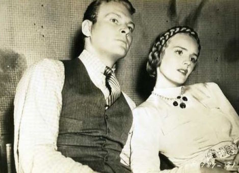 Farmer & Ericson, publicity photo